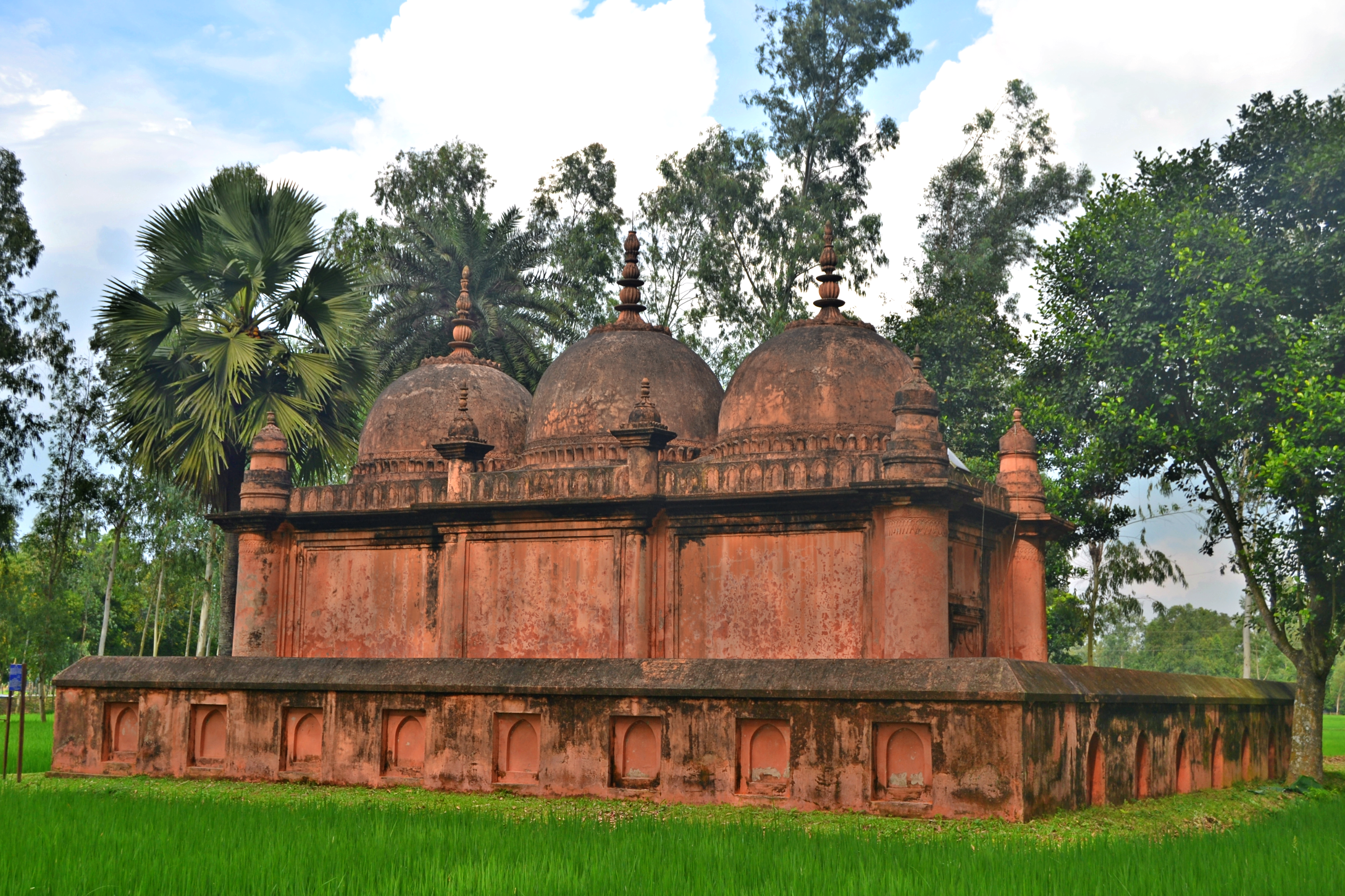 Mithapukur Bara Mosque